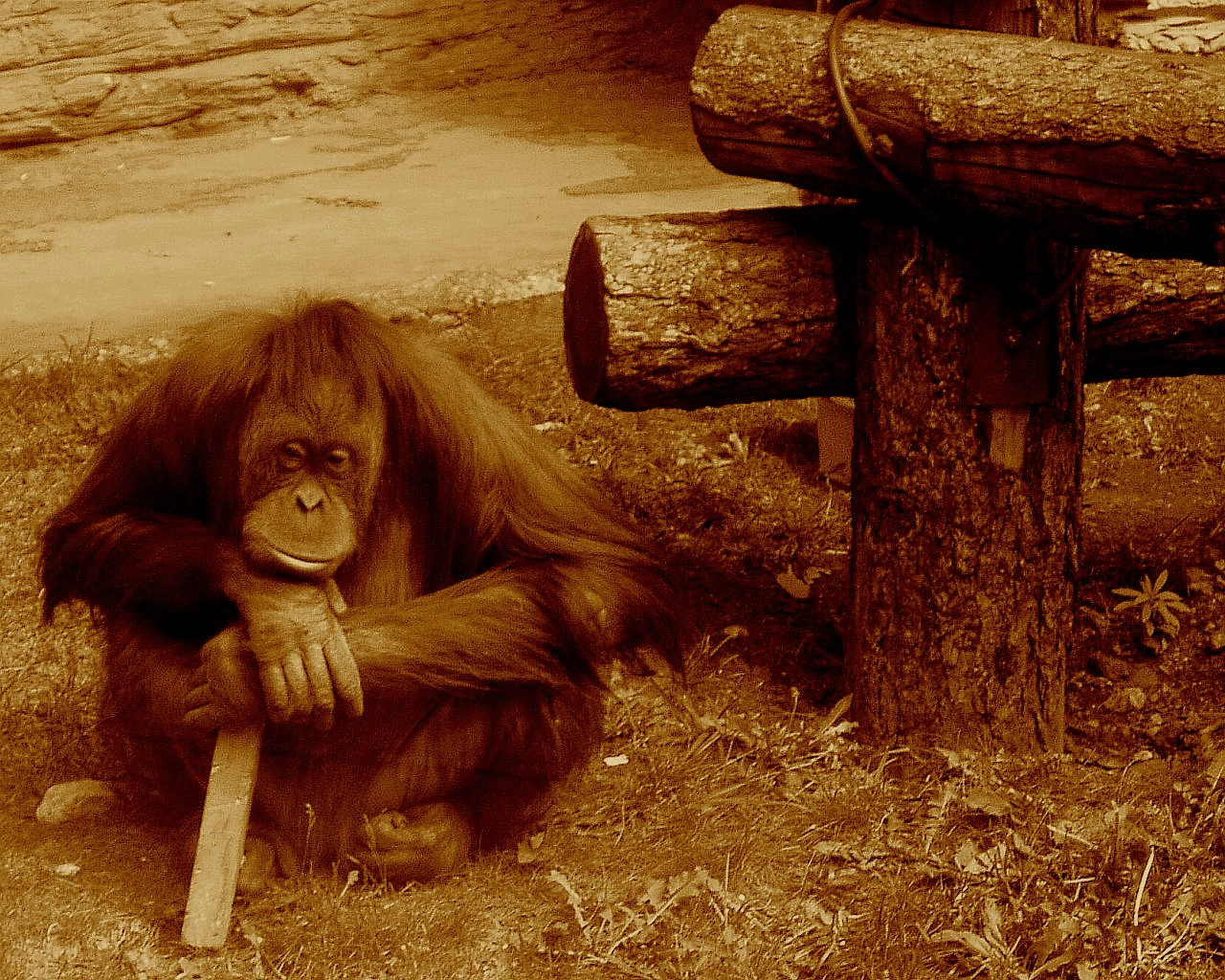 Orungutan is "thinking" (Moscow zoo)